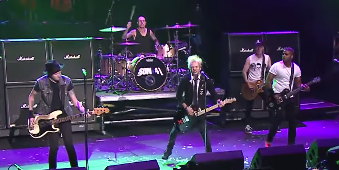 Sum 41 at the Alternative Press Music Awards in 2015.